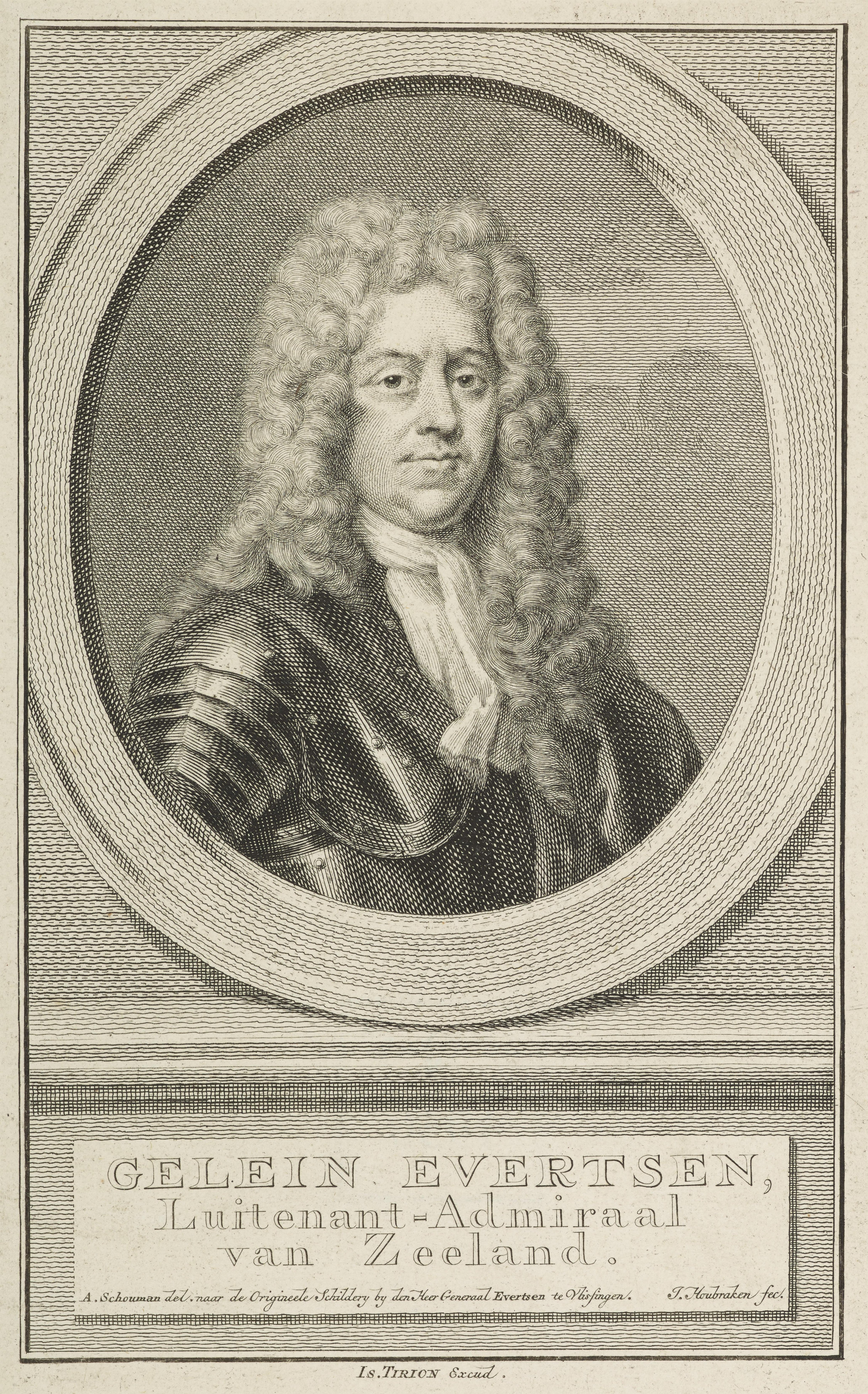 Portrait of Geleyn Evertsen (1655-1721)